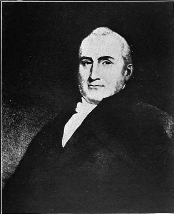 Portrait by Charles Willson Peale, engraving by John Sartain